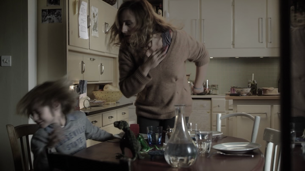 Corporal punishment of minors in France. In France, corporal punishment is banned in schools only, but in France's report in the website of the Global Initiative to End All Corporal Punishment of Children, corporal punishment is not prohibited in schools or at home.